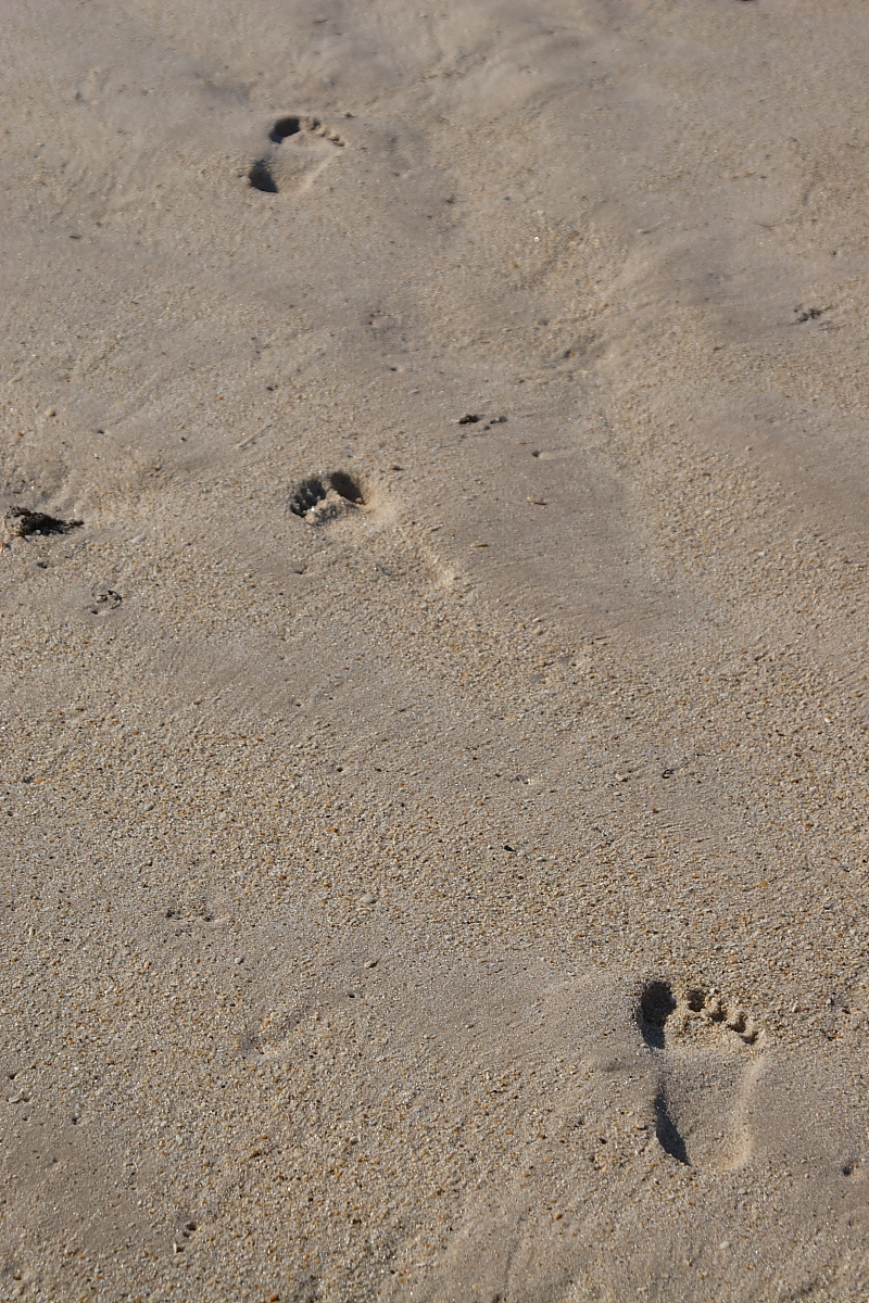 Footprints in sand, Vero Beach, Florida.